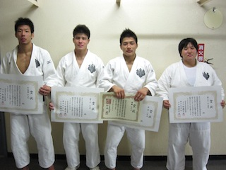 An Changrim (second from the right) after winning the 2013 All Japan University Championships